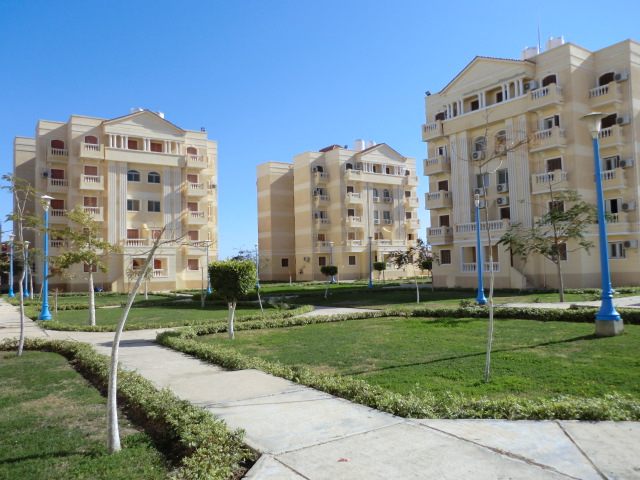 Egypt-Japan University of Science and Technology